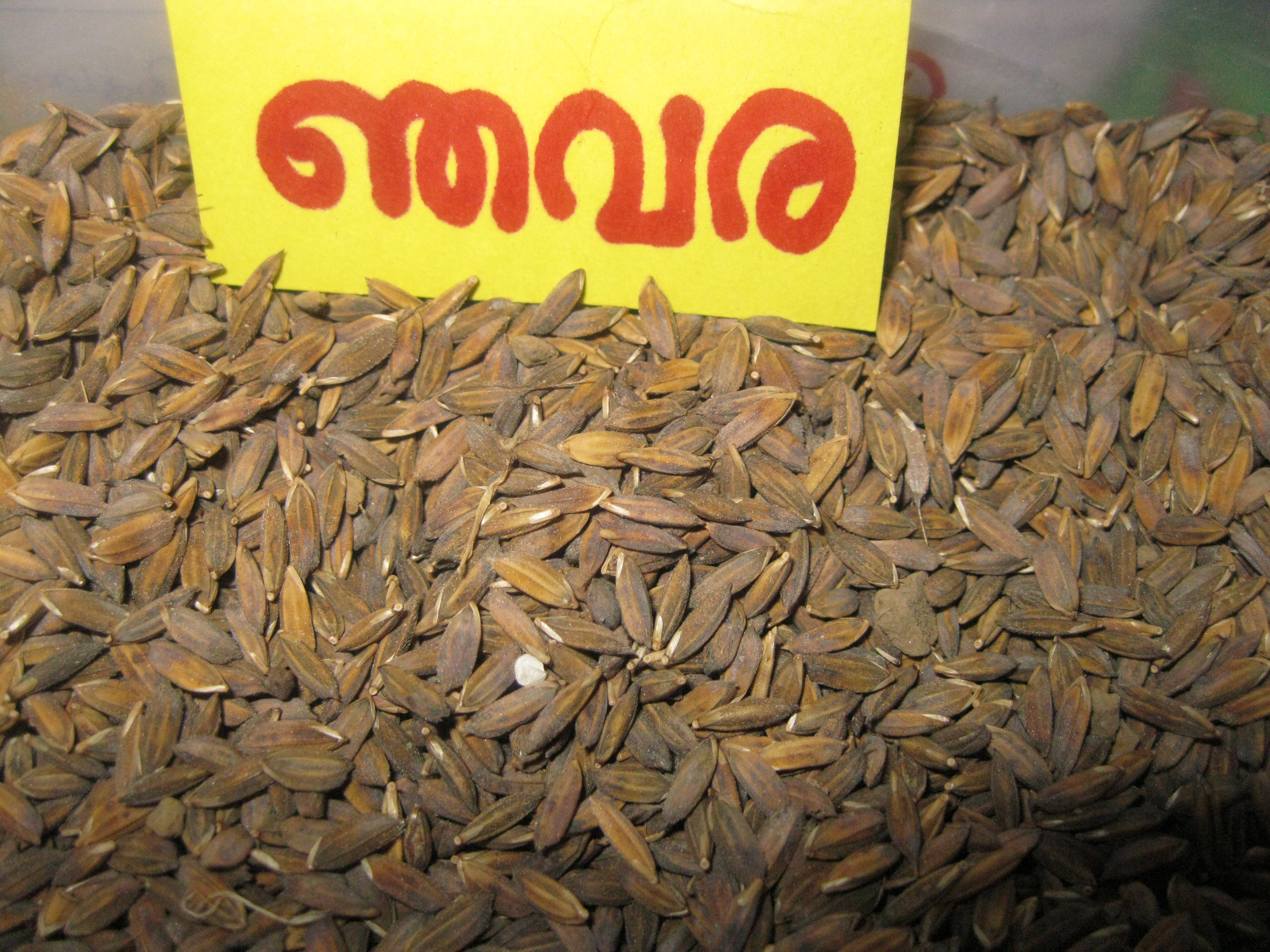 njavara,a special type of paddy seed in Kerala, India